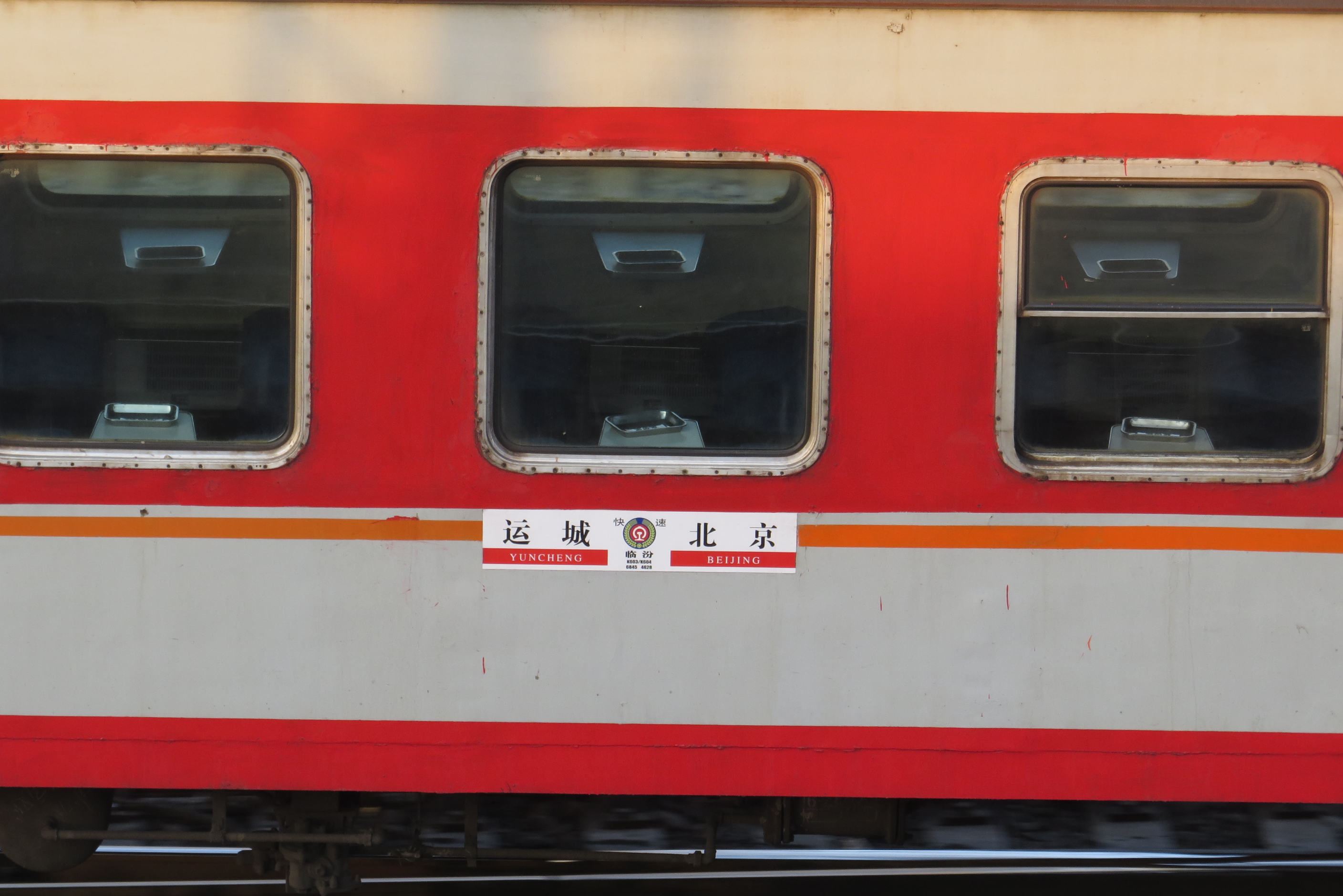 K603/604, Beijing to Yuncheng.